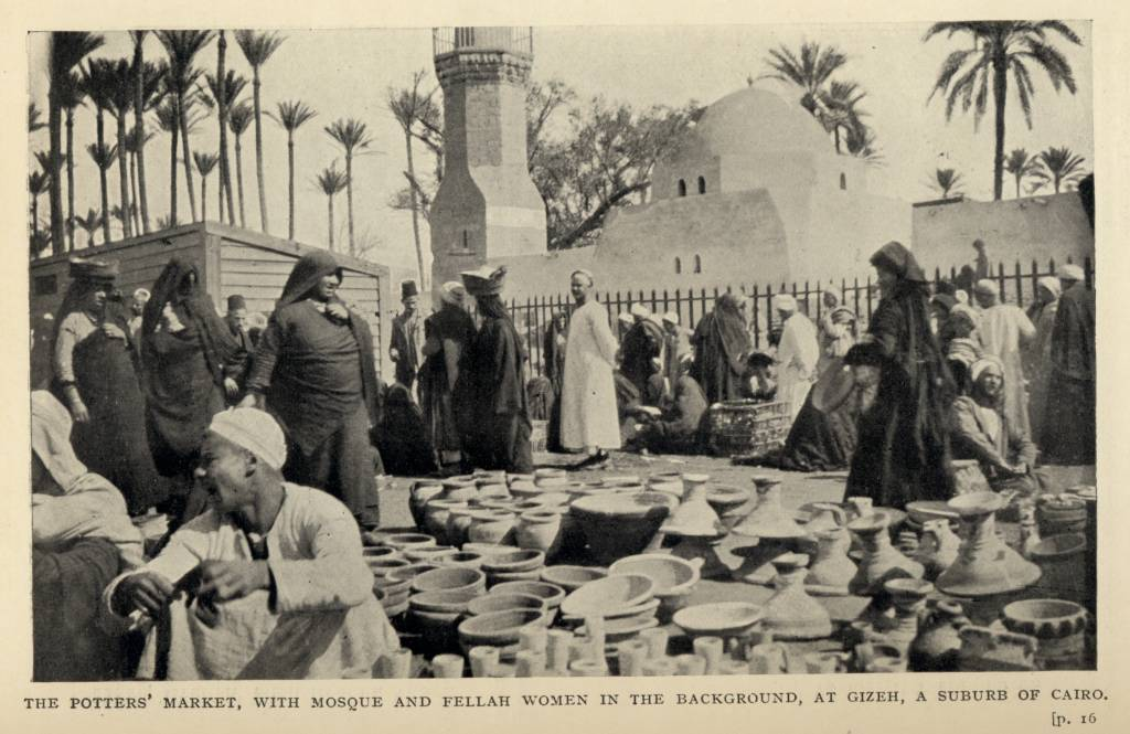 A photograph of people gathered in a market dressed in traditional Arab garb.